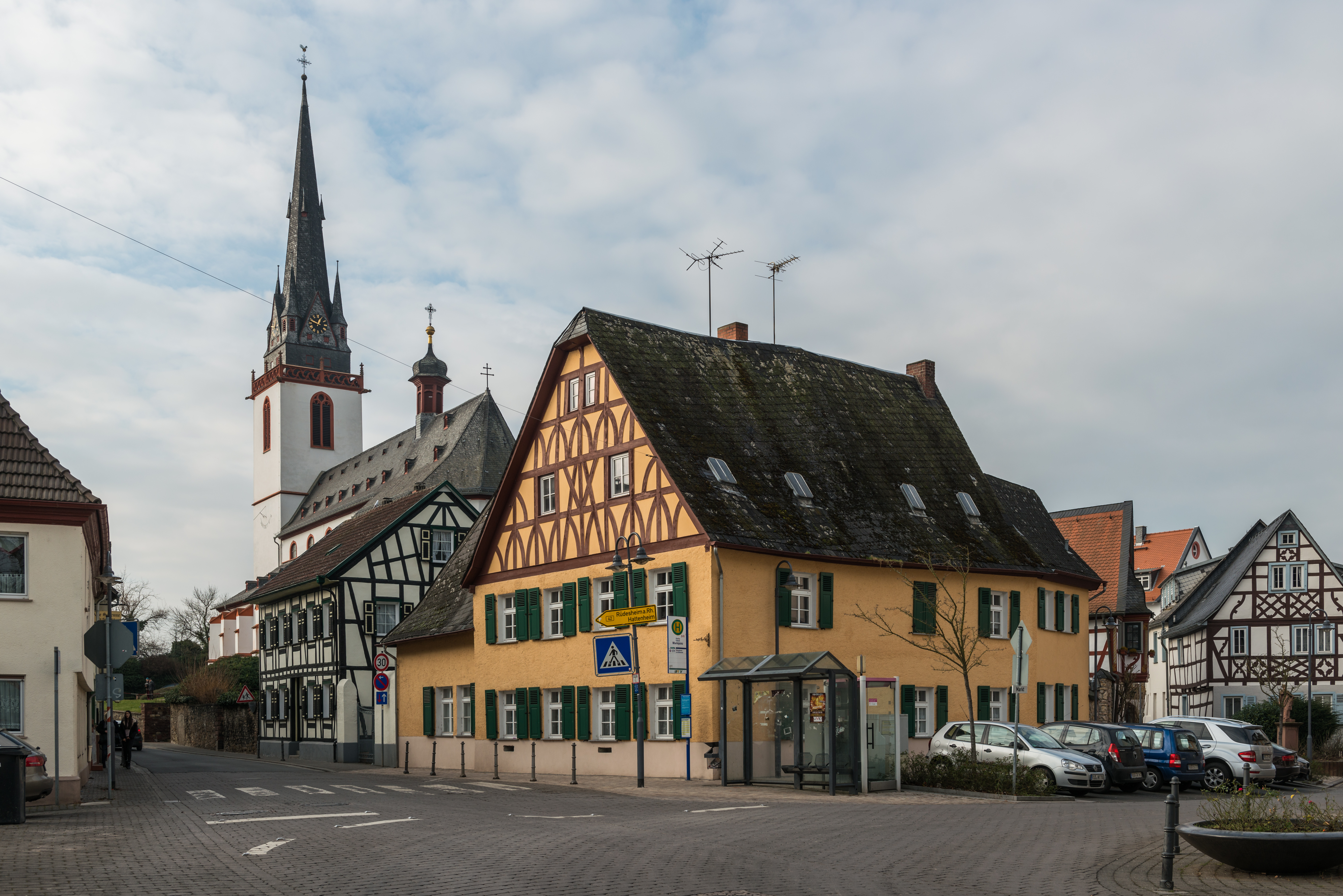 A view of Erbach and its church as seen from the market place